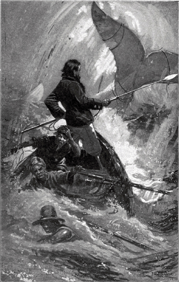 Illustration of the final chase of Moby-Dick.